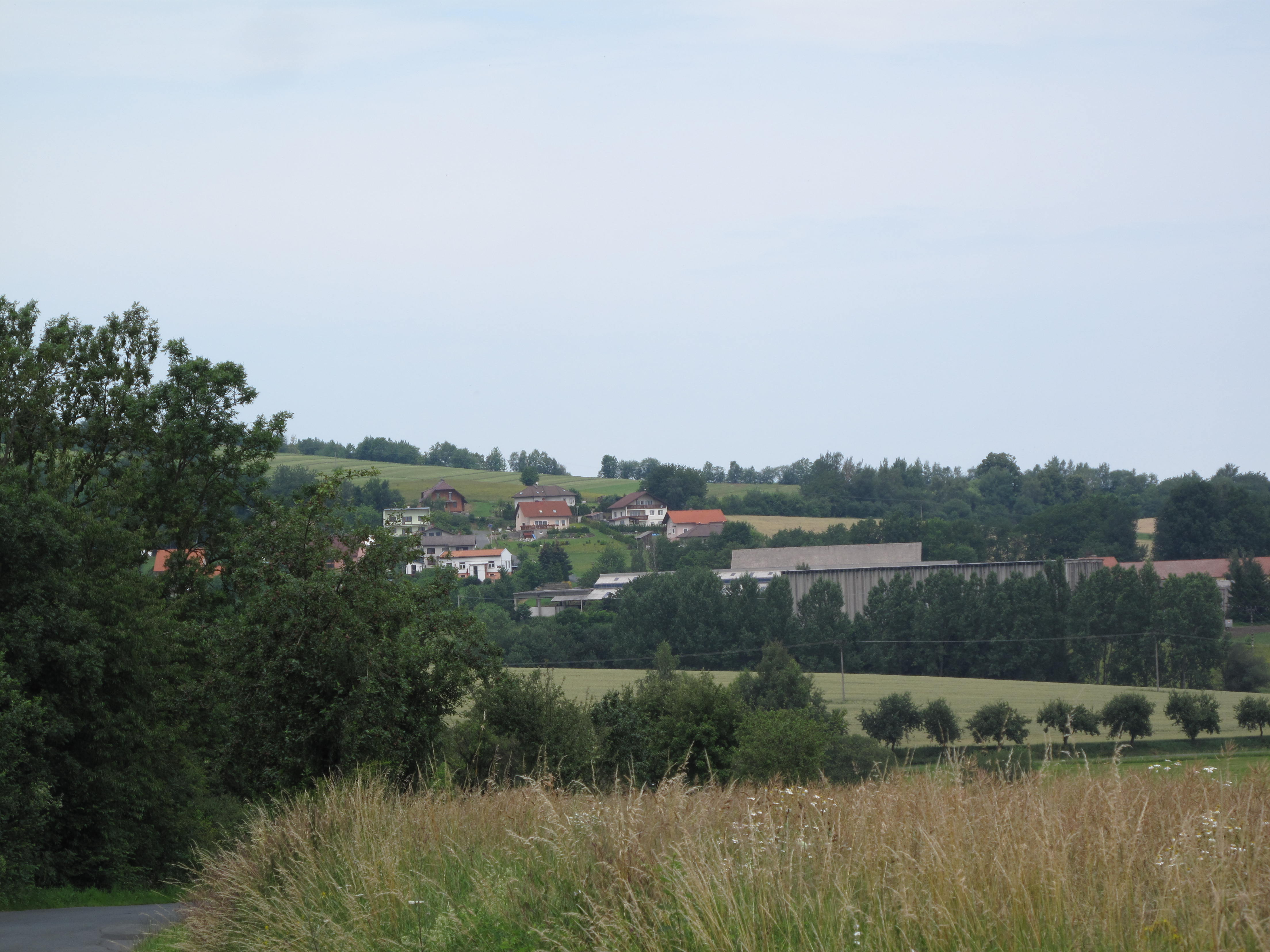 Stráž village in Domažlice District, Czech Republic